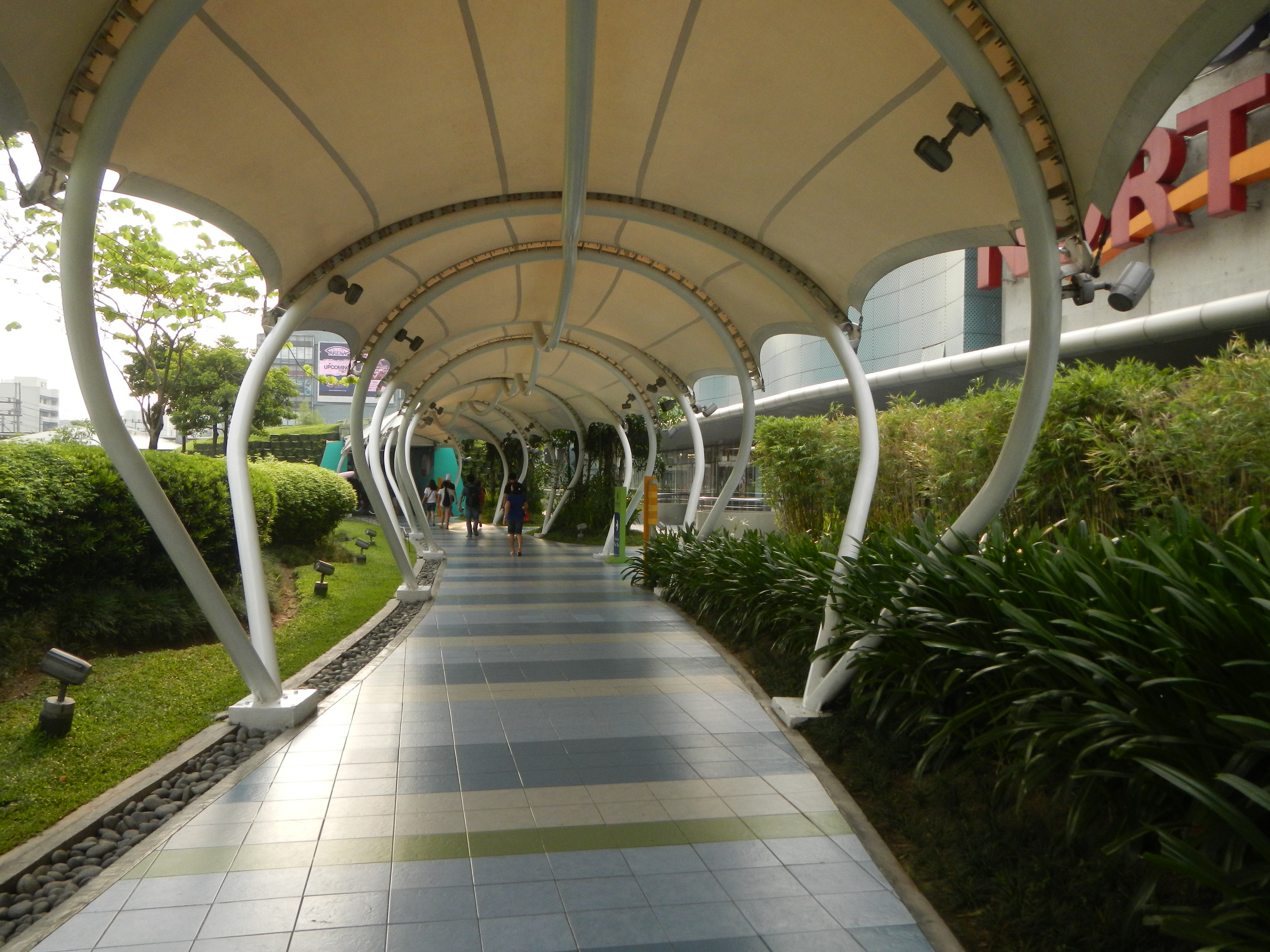 SM City North EDSA along North Avenue, Quezon City upon the West North Footbridge (West Avenue corner North Avenue, EDSA, Quezon City) Legislative districts of Quezon City District 1, Barangays of Quezon City Sitio San Roque, Bagong Pag-Asa, Quezon City, District 1 Quezon City coming to an interchange with Epifanio de los Santos Avenue (EDSA, North-West Avenue section) EDSA (road) Epifanio de los Santos Avenue Highway 54).